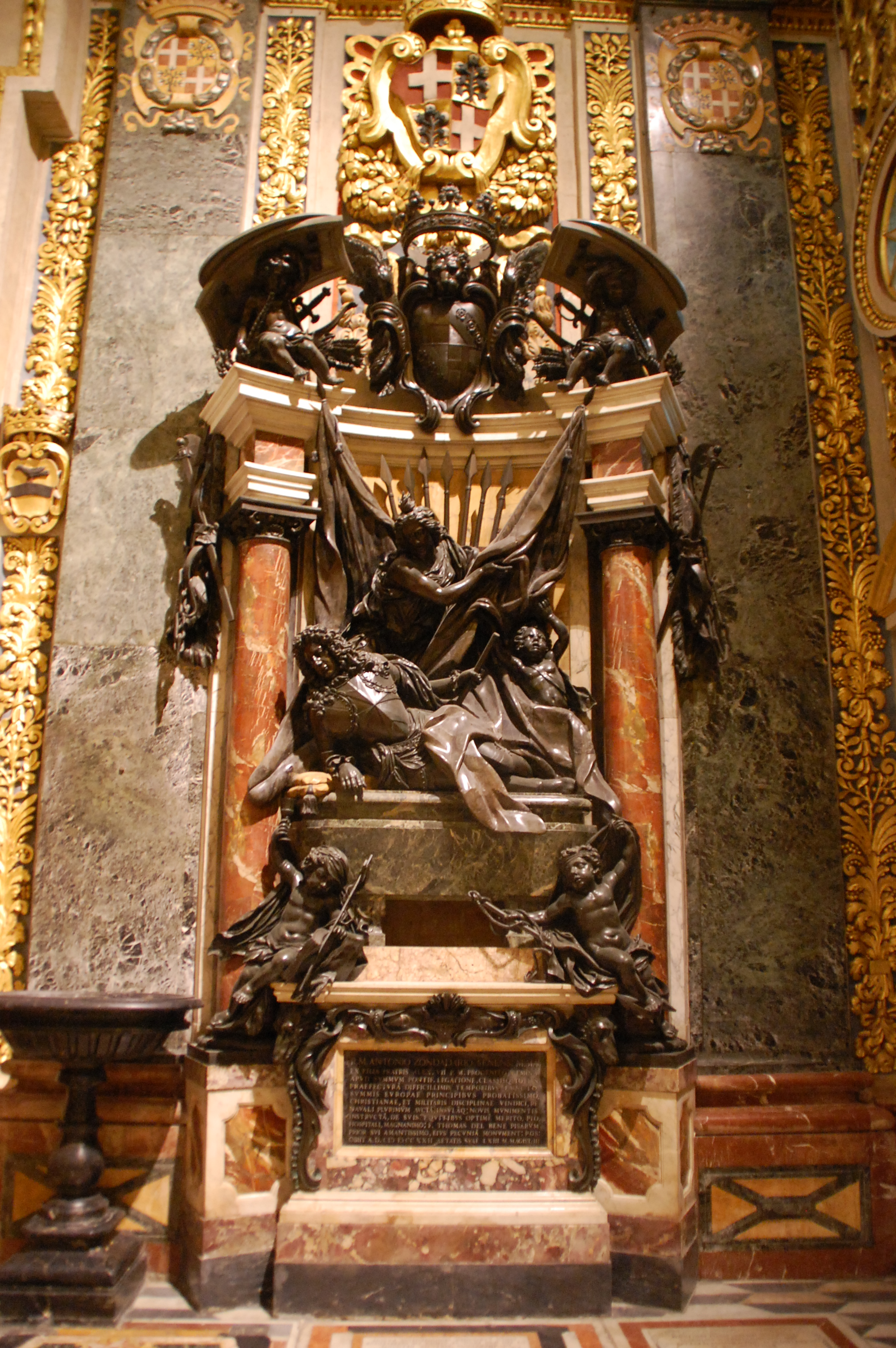 Detail from St John's Co-Cathedral, Valletta, Malta